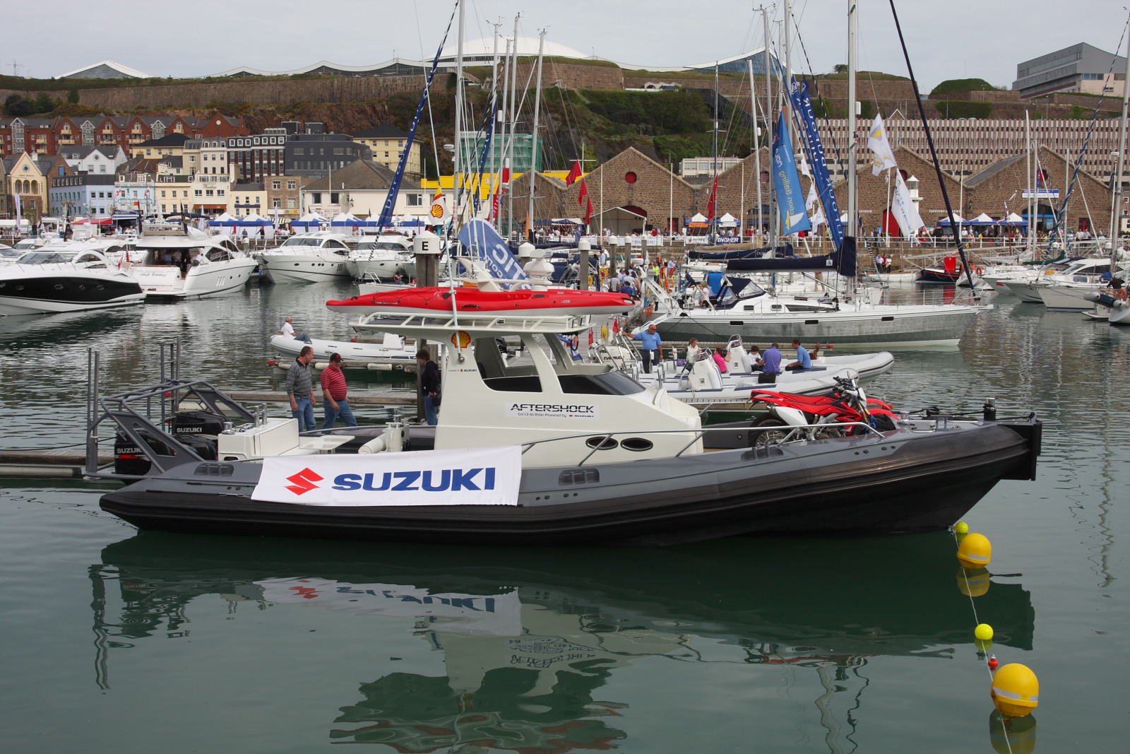 A rigid inflatable boat, complete with two motorbikes and two canoes, located at the Jersey Boat Show 2008, in St. Helier. Nouormand: La cauchie d'Saint Hélyi auve lé Fort Régent en driéthe, Jèrri